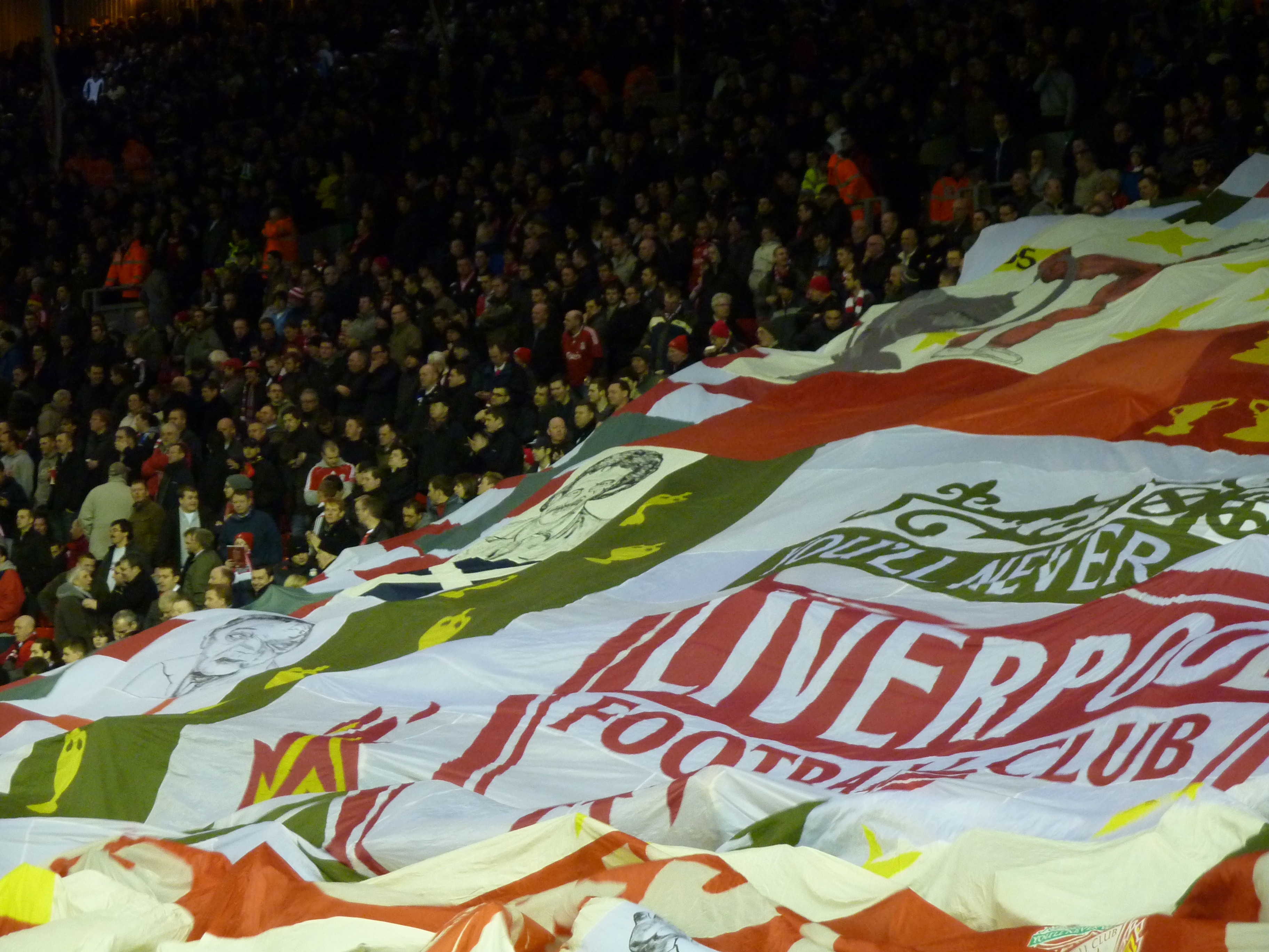 Flag with a shield of Liverpool Football Club, Anfield